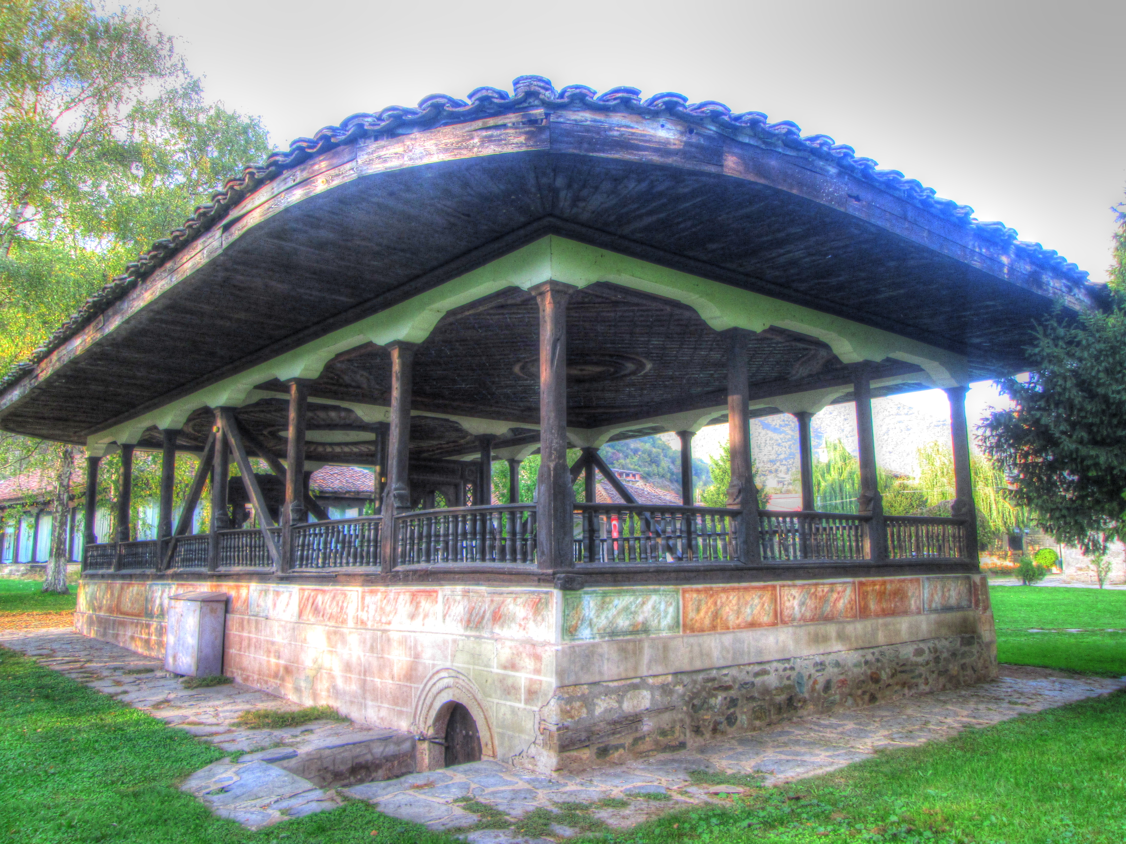 Carved hutch in the central part with a marble fountain for resting in the courtyard of Baba Teke Arabati